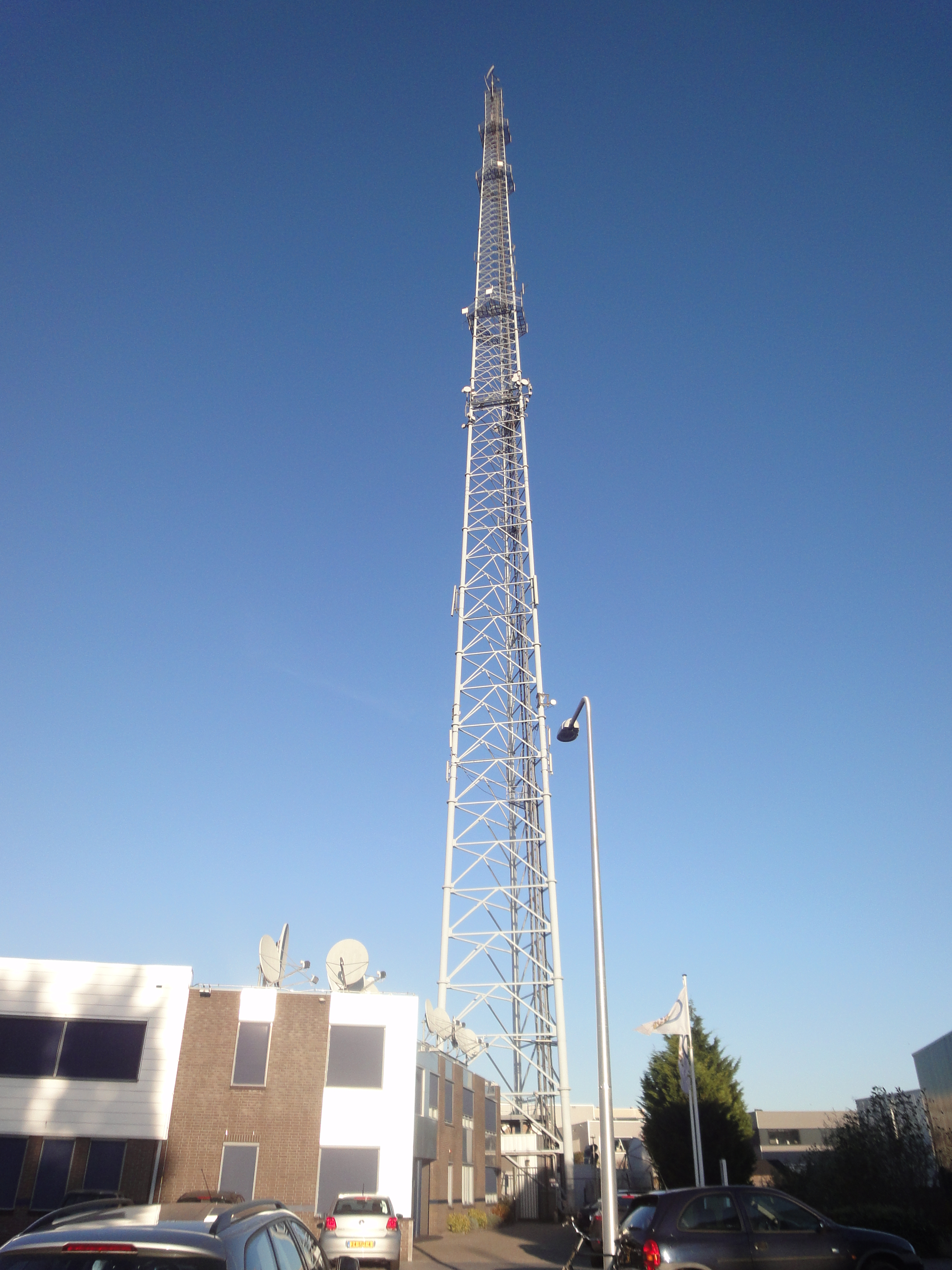 Caiway internet provider